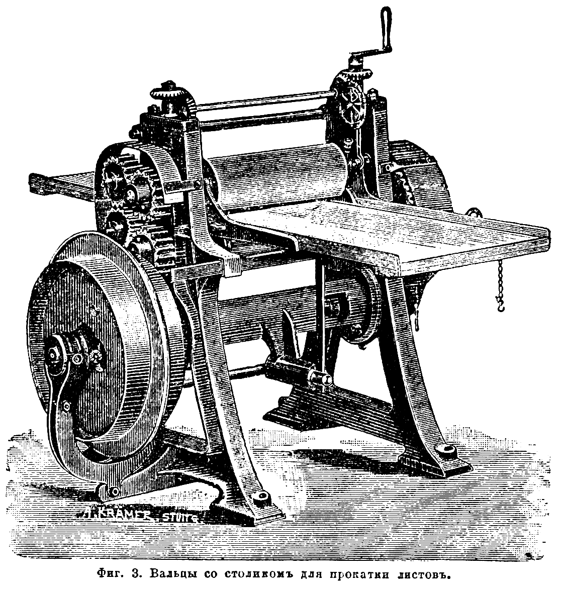 Illustration from Brockhaus and Efron Encyclopedic Dictionary (1890—1907)